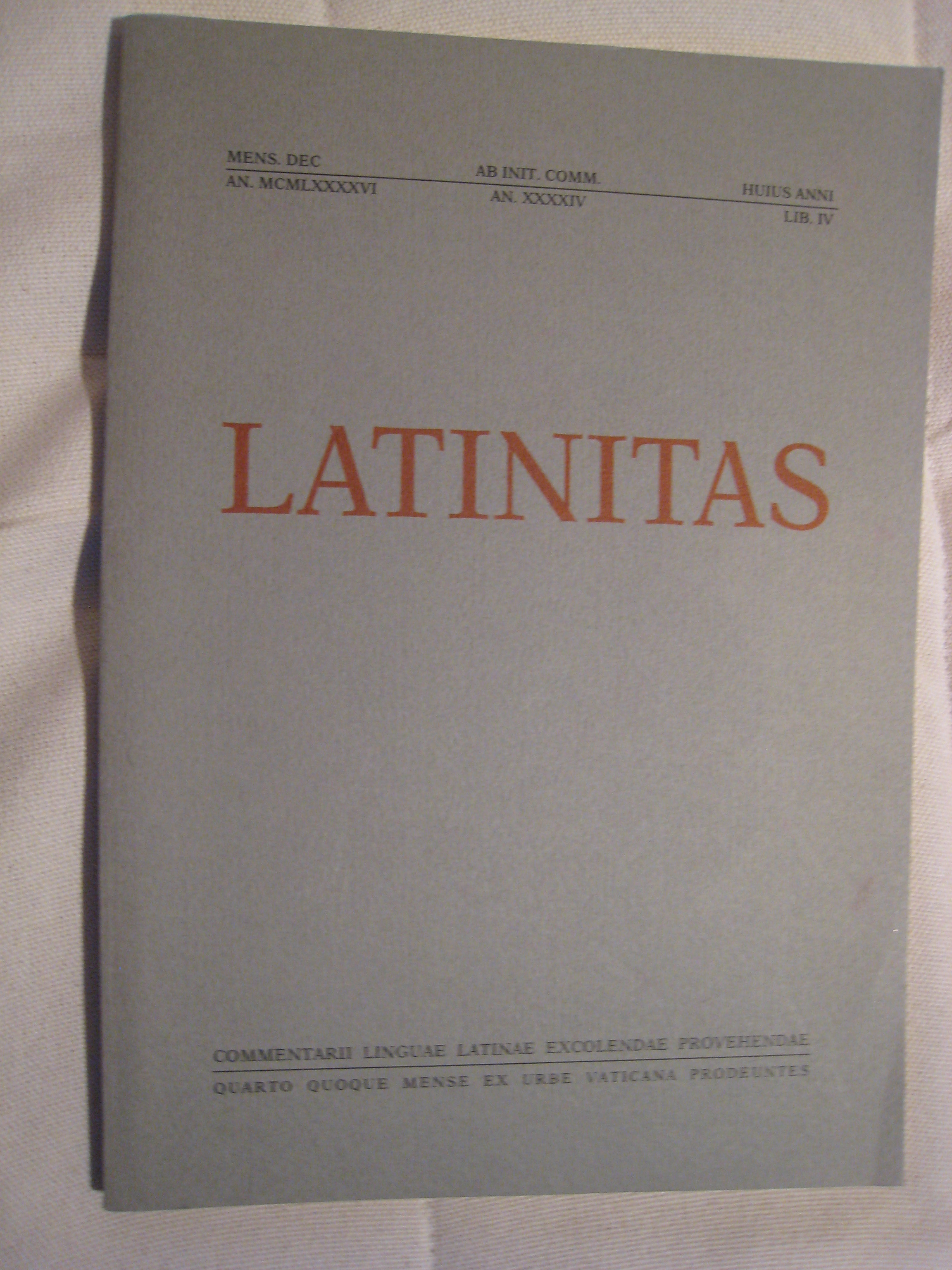 Latinitas 4/1996, periodical in Latin language, edited in the Vatican City.